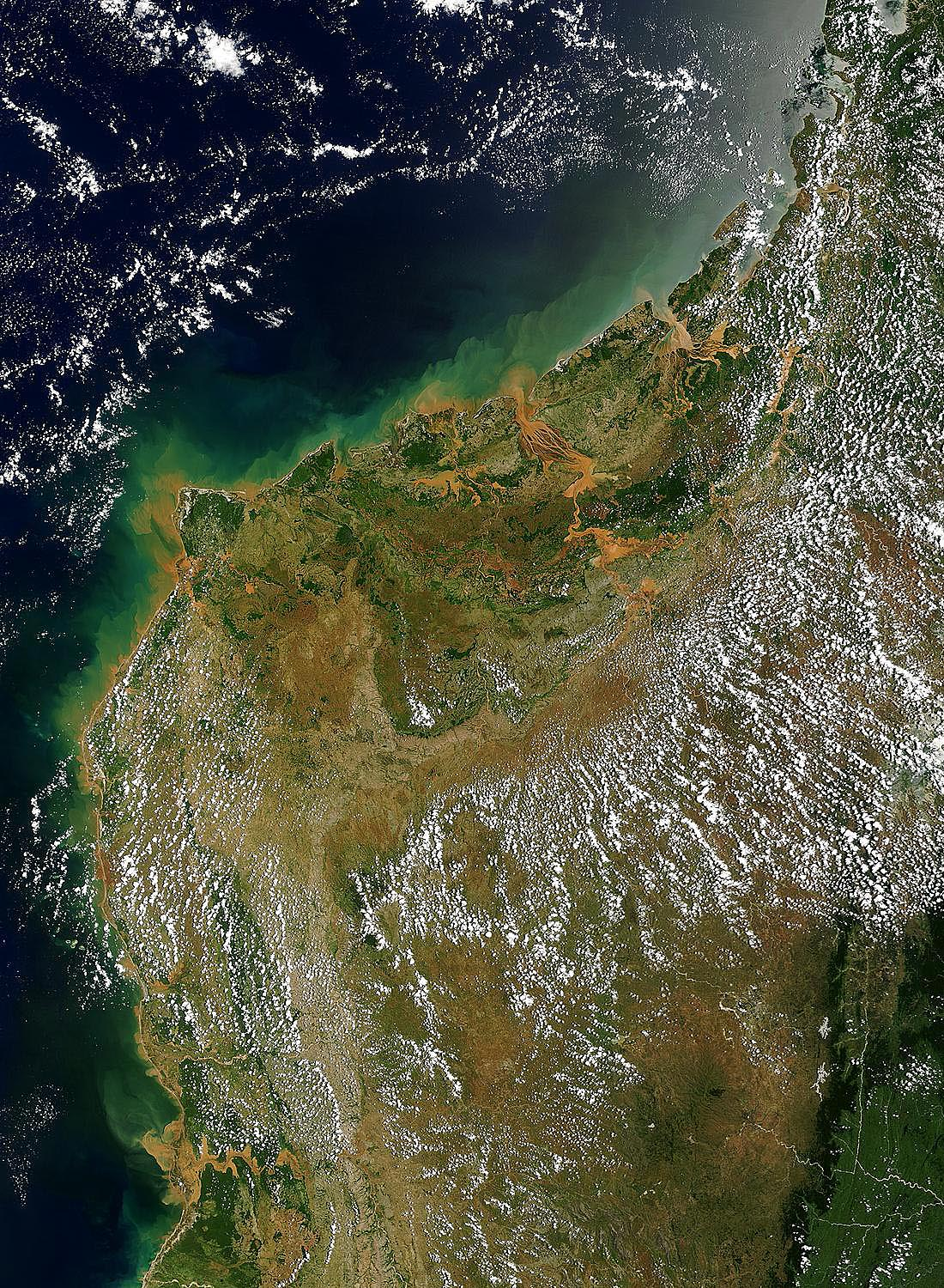 Runoff from Cyclone Elita in January 2004